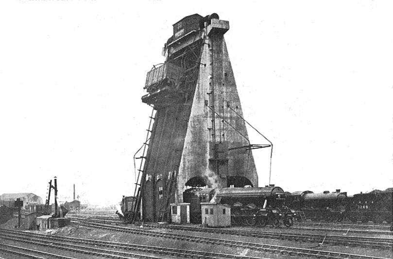 Locomotive Coaling Plant at Doncaster, LNER Note the Coal Wagon in course of being lifted to discharge its contents Photo: LNER